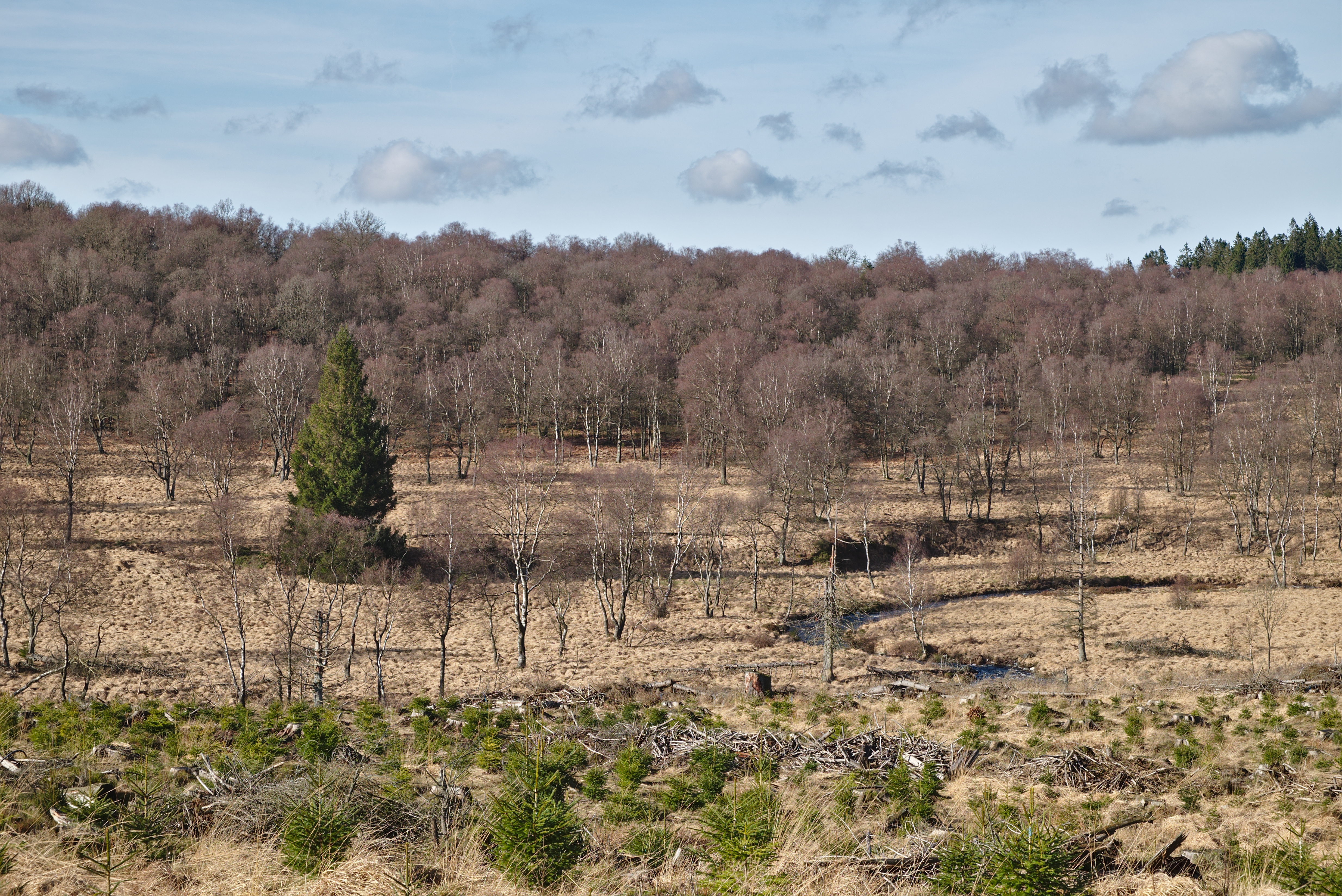 Fagne Tirifaye with the Hill river in Waimes, Belgium (DSCF3682)